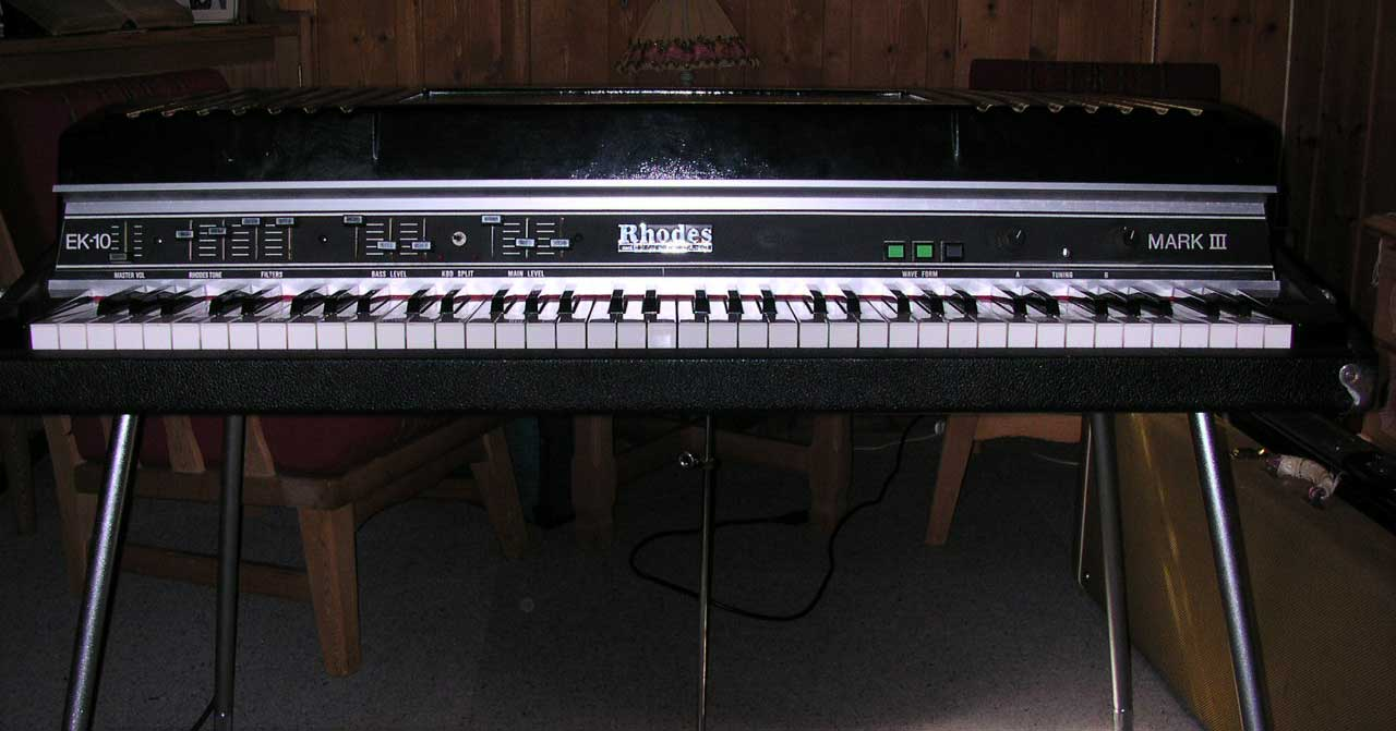 Rhodes Mark III